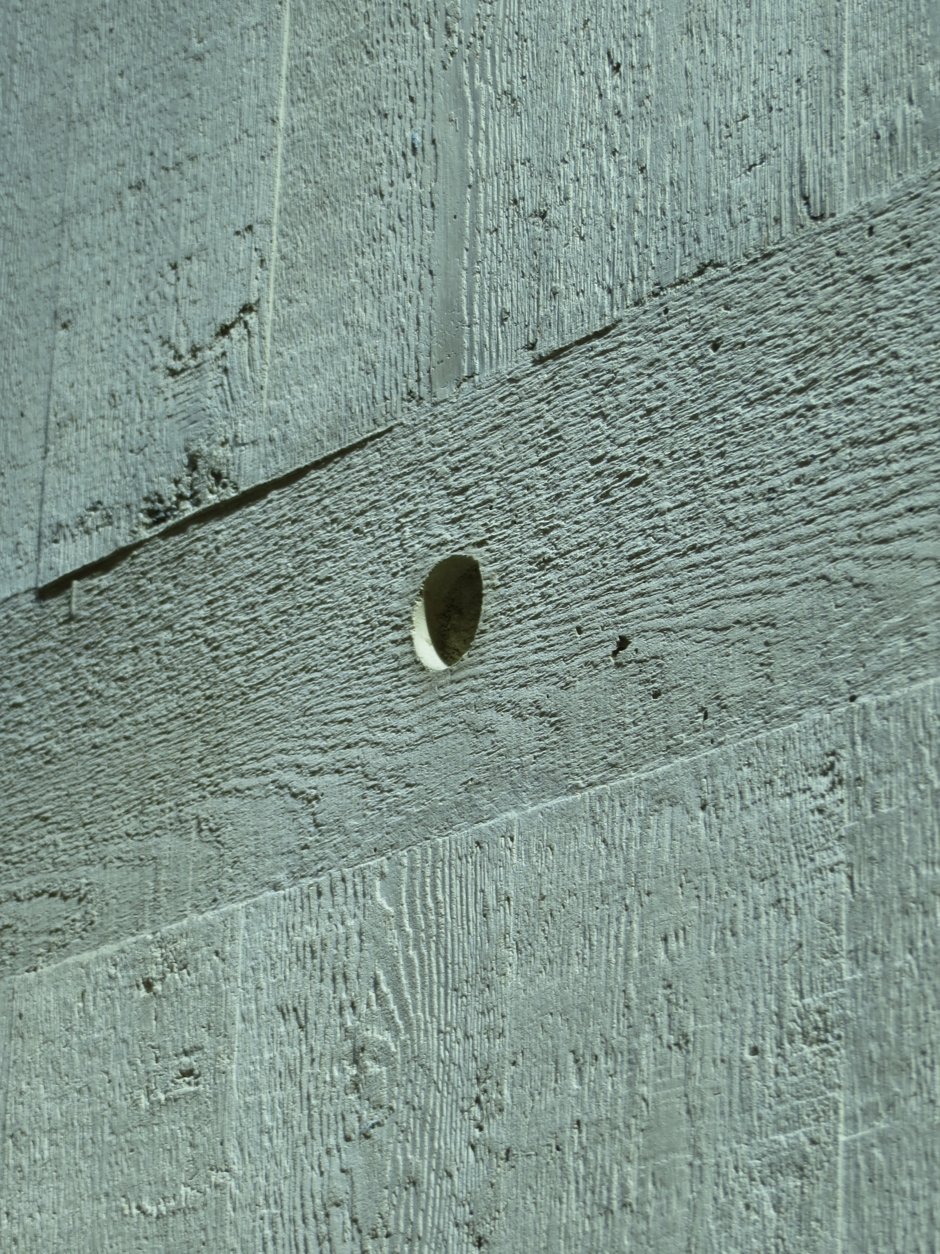 Clifton Cathedral, Clifton Park, Bristol BS8 3BX, UK